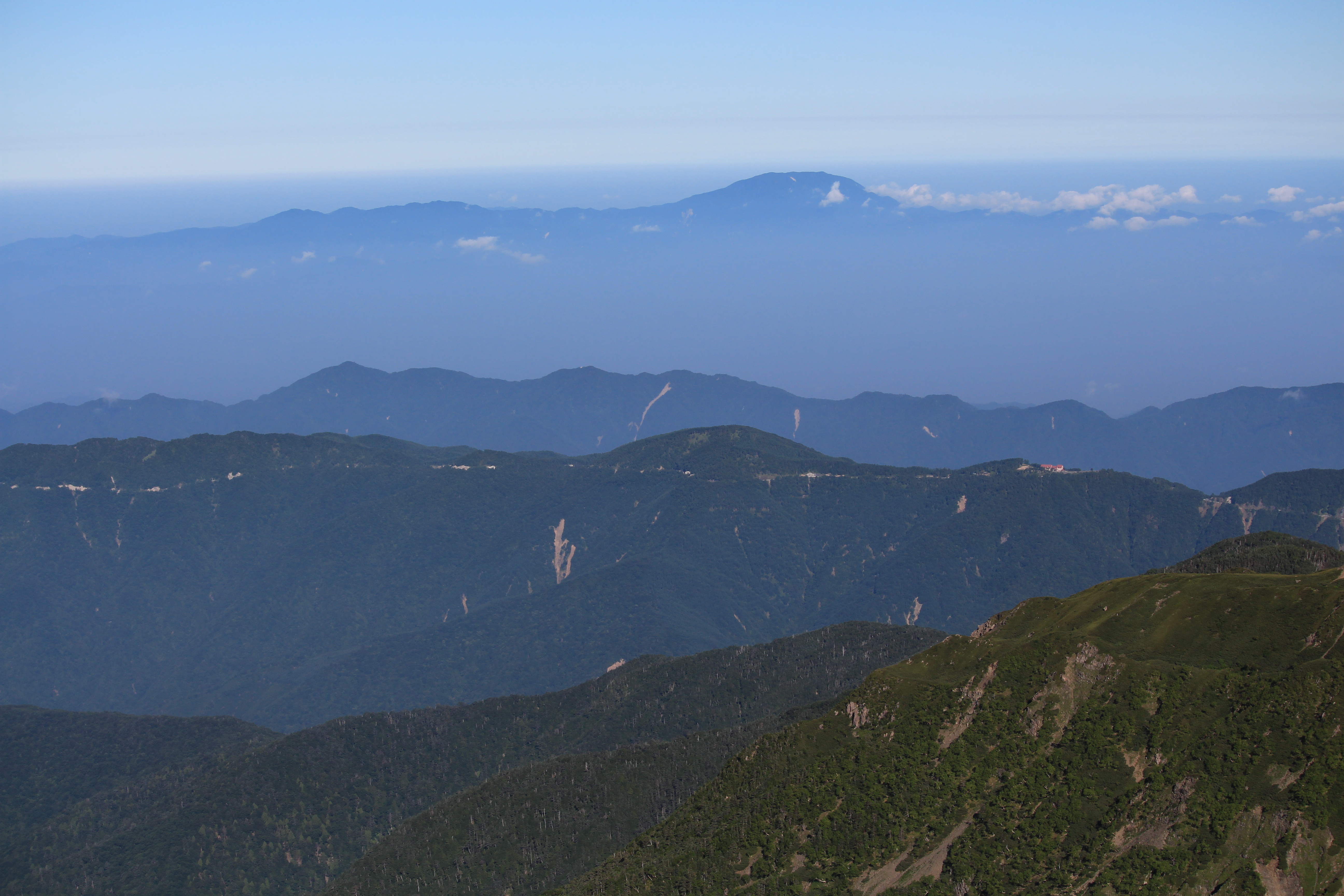 Mount Ena seen from Mount Hijiri, in Akaishi Mountains, Japan.